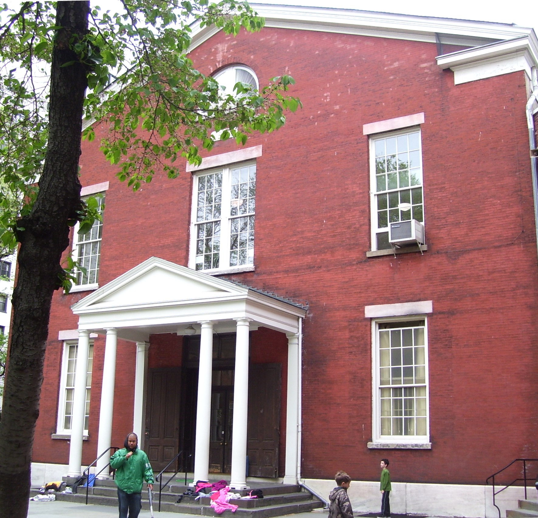 The Friends' Meeting House on East 16th Street and Rutherford Place in Manhattan, New York, is part of a row of buildings begun in the 1850s. This building is dated 1860, and stands across the street from the western half of Stuyvesant Square Park.